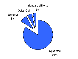 Percentage of countries' population in reference to the UK total population